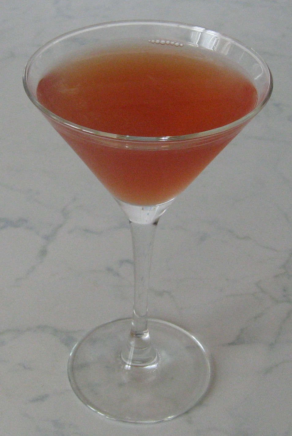 Scarlett O'Hara Cocktail